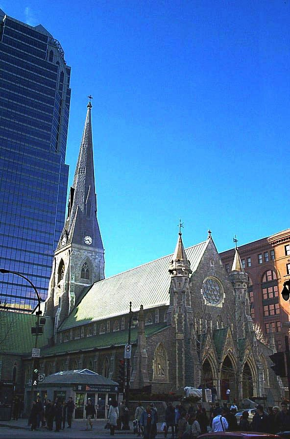 Montreal'sChrist Church Cathedral. Personal snapshot by Montrealais.